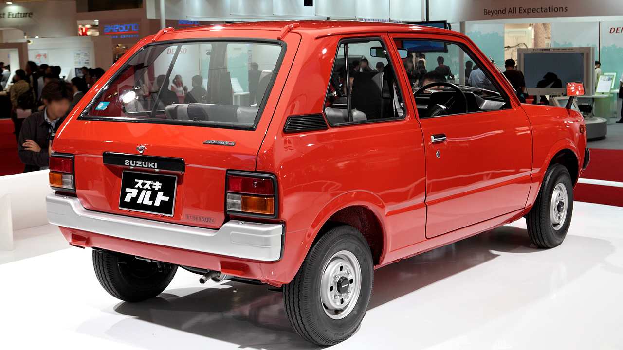 1979's the first generation Suzuki Alto, at the Tokyo Motor Show 2009.